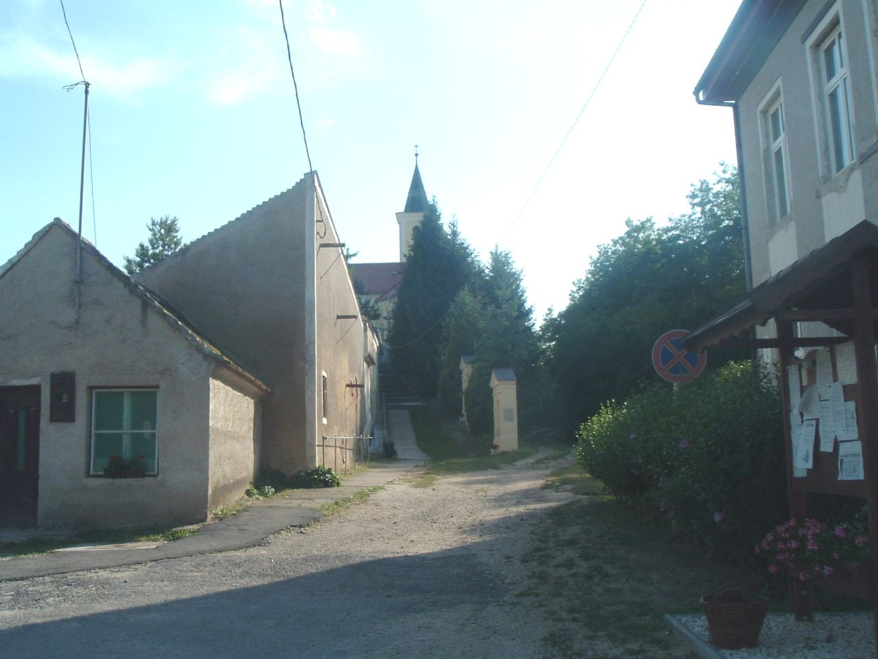 Répcevis, Hungary